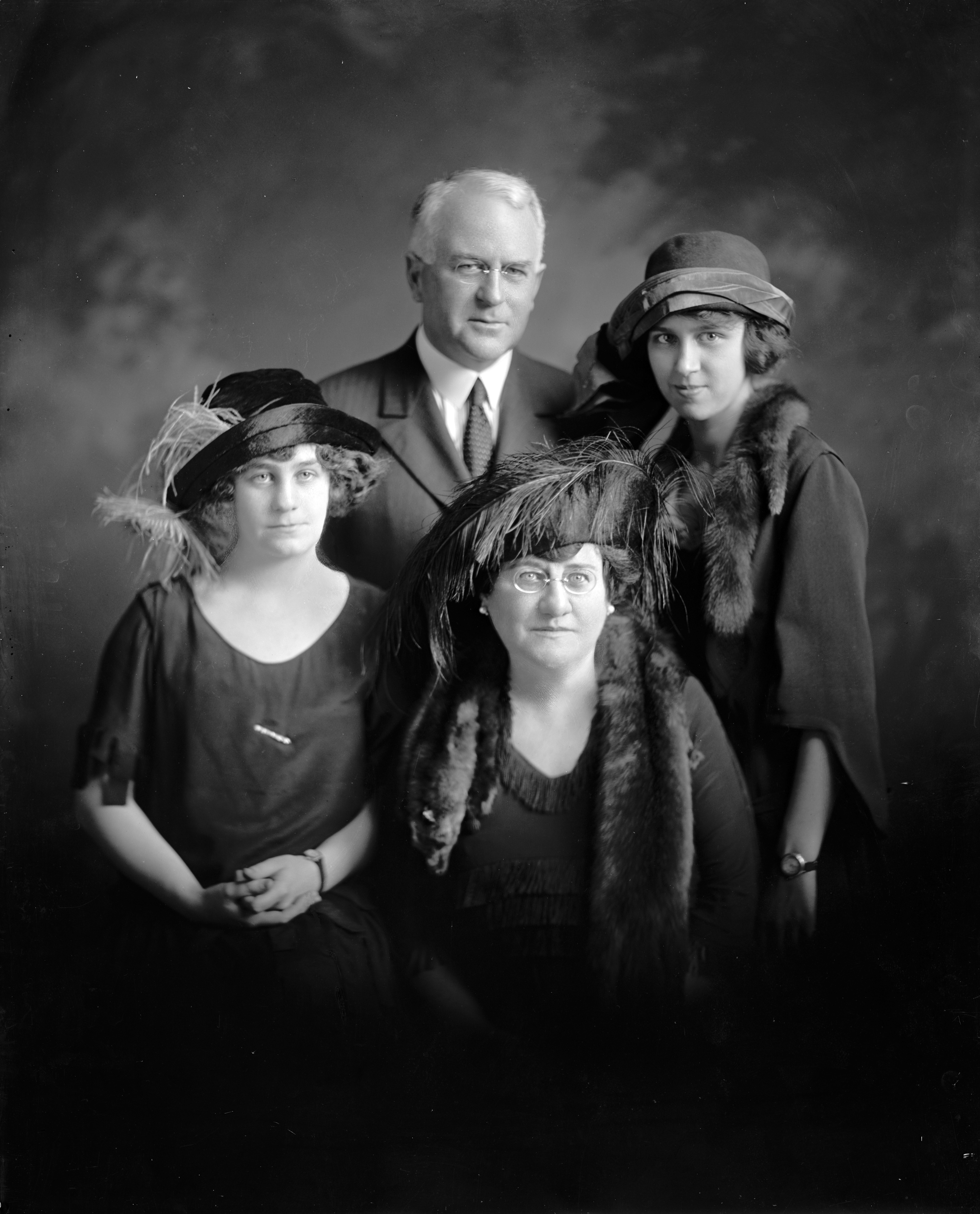 James J. Couzens, Mayor of Detroit and US Senator from Michigan